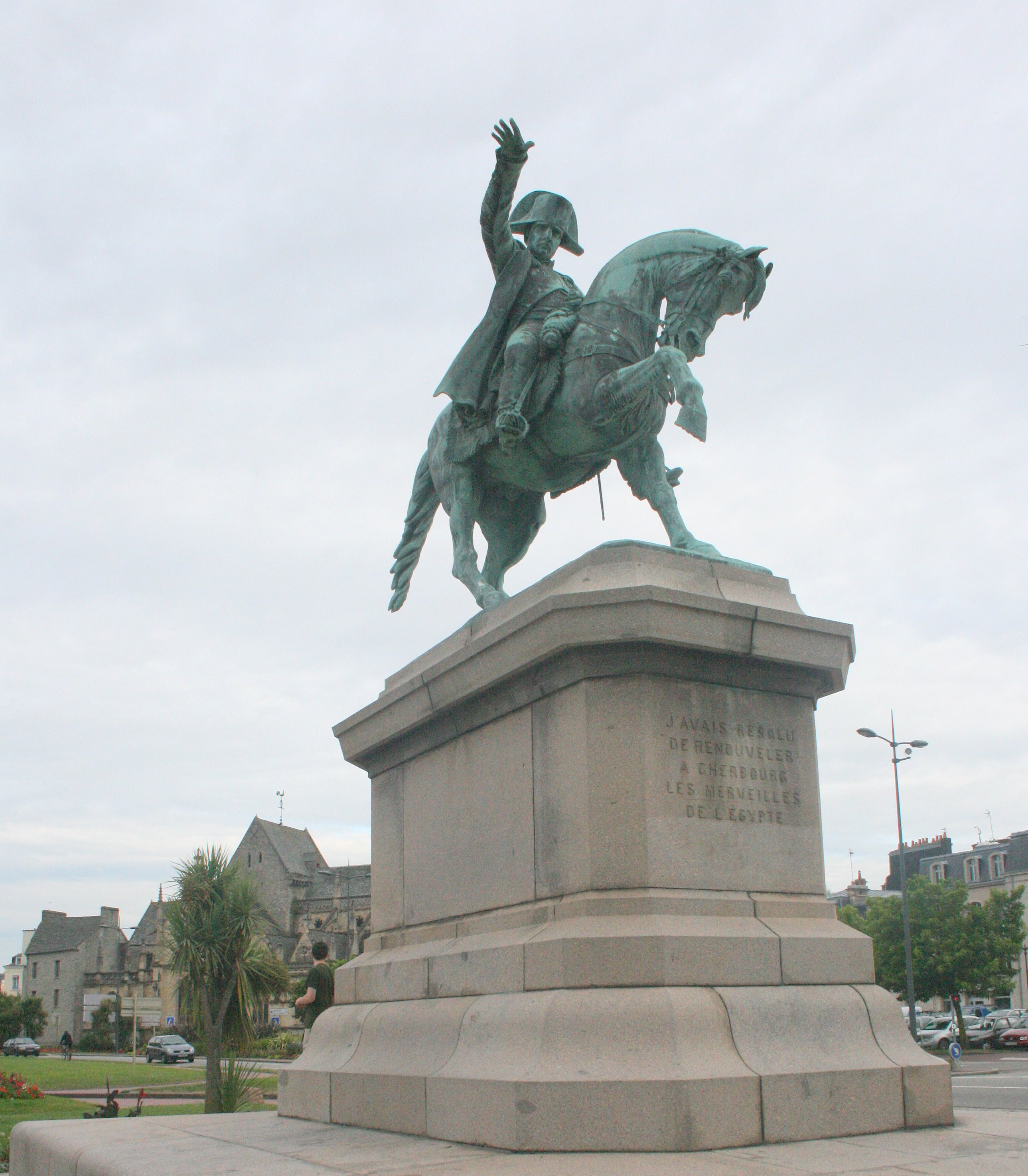 Armand Le Véel (French, 1821-1905): Napoleon Ier, 1858, equestrian statue, Cherbourg, Manche, France